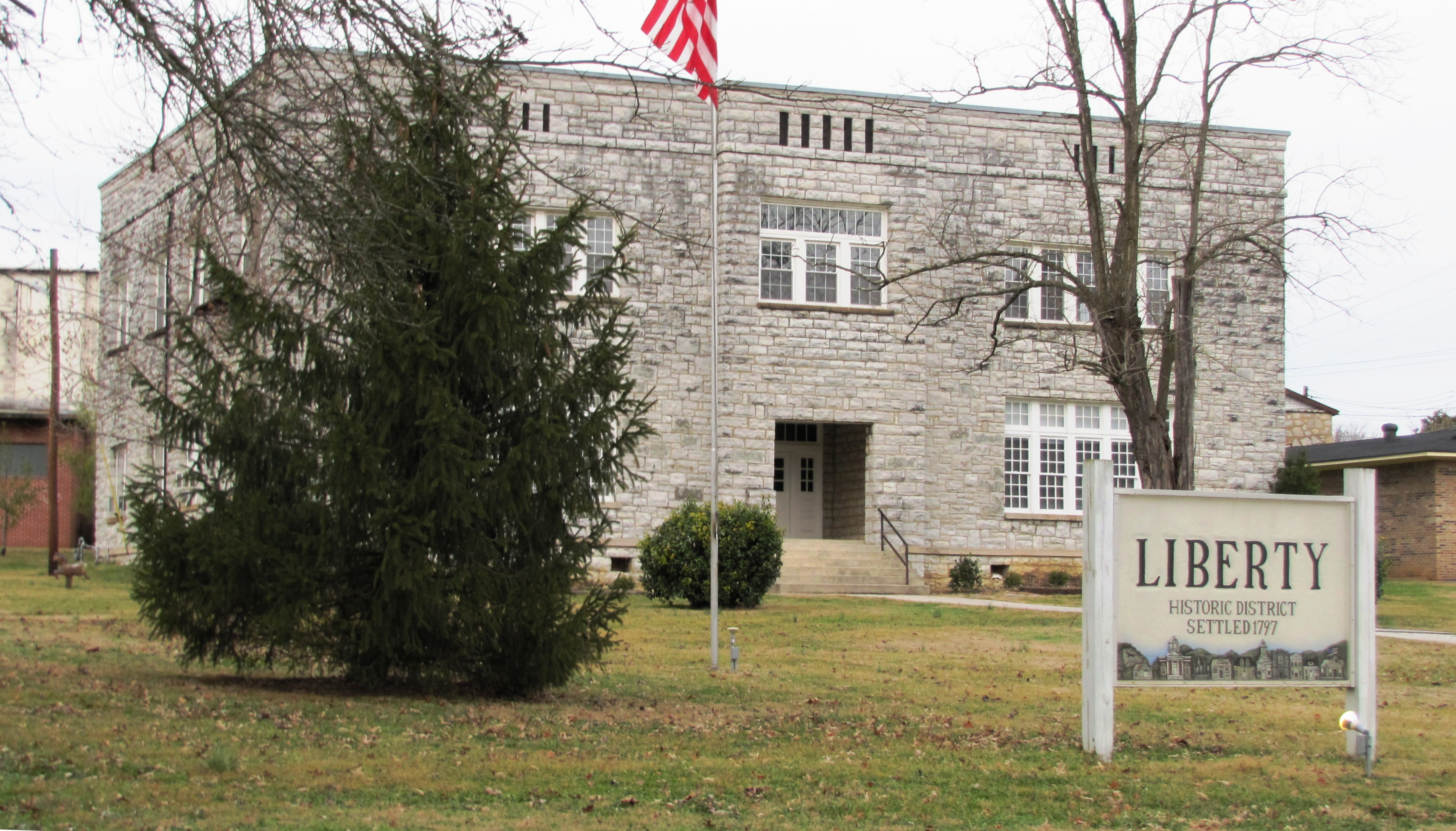 Liberty Town Hall, part of the Liberty Historic District, in Liberty, Tennessee, USA.